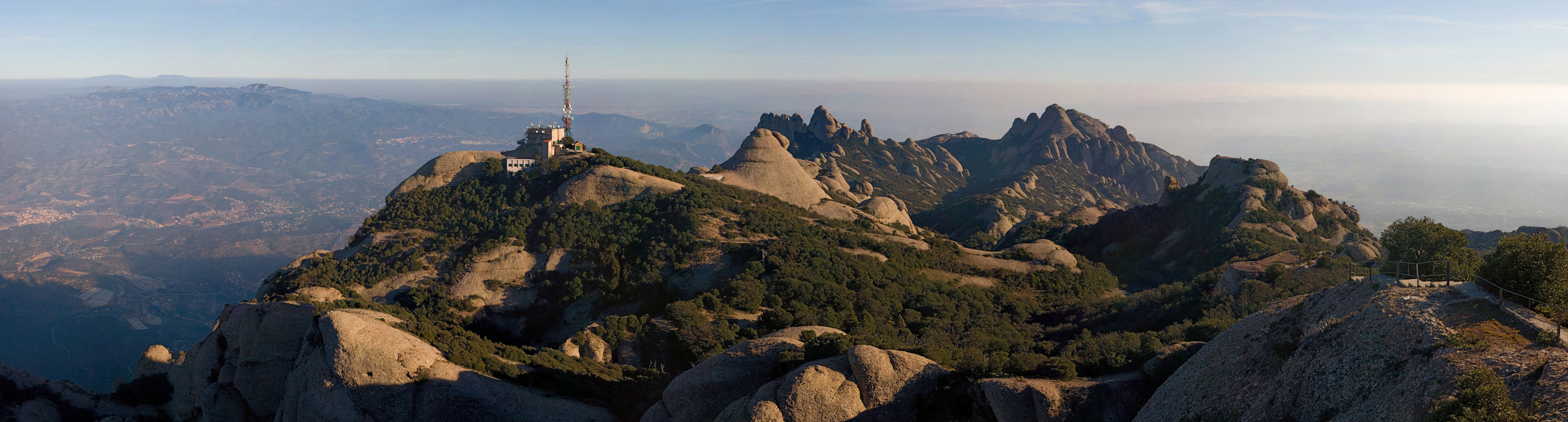 A panoramic view from St Jerome at 1236 metres above sea level on the mountains of Montserrat in Catalonia, Spain. Taken with a Canon 5D and 70-200mm f/2.8L lens. This is a multi segment panorama.